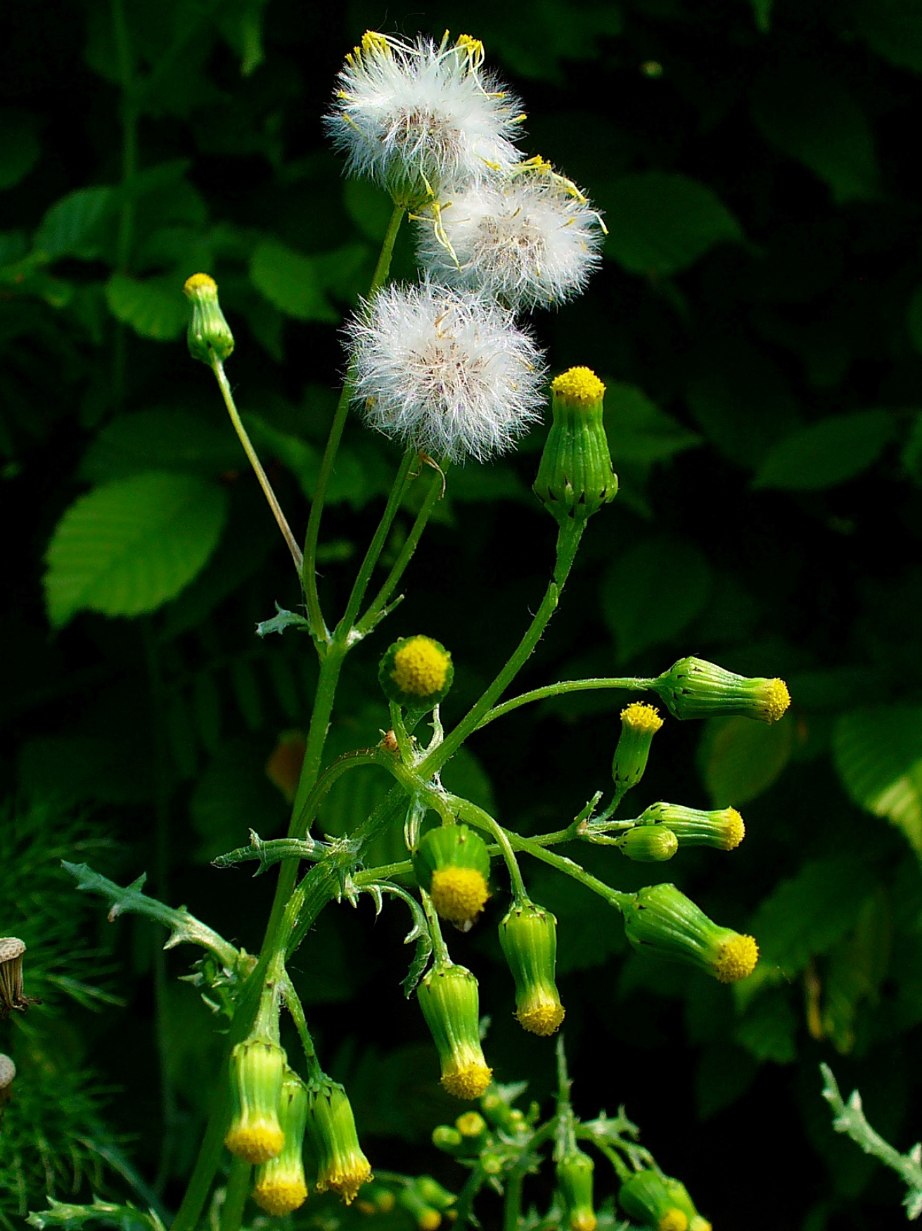 Senecio vulgaris, Asteraceae, Common Groundsel, inflorescences and infrutescences. Karlsruhe, Germany.